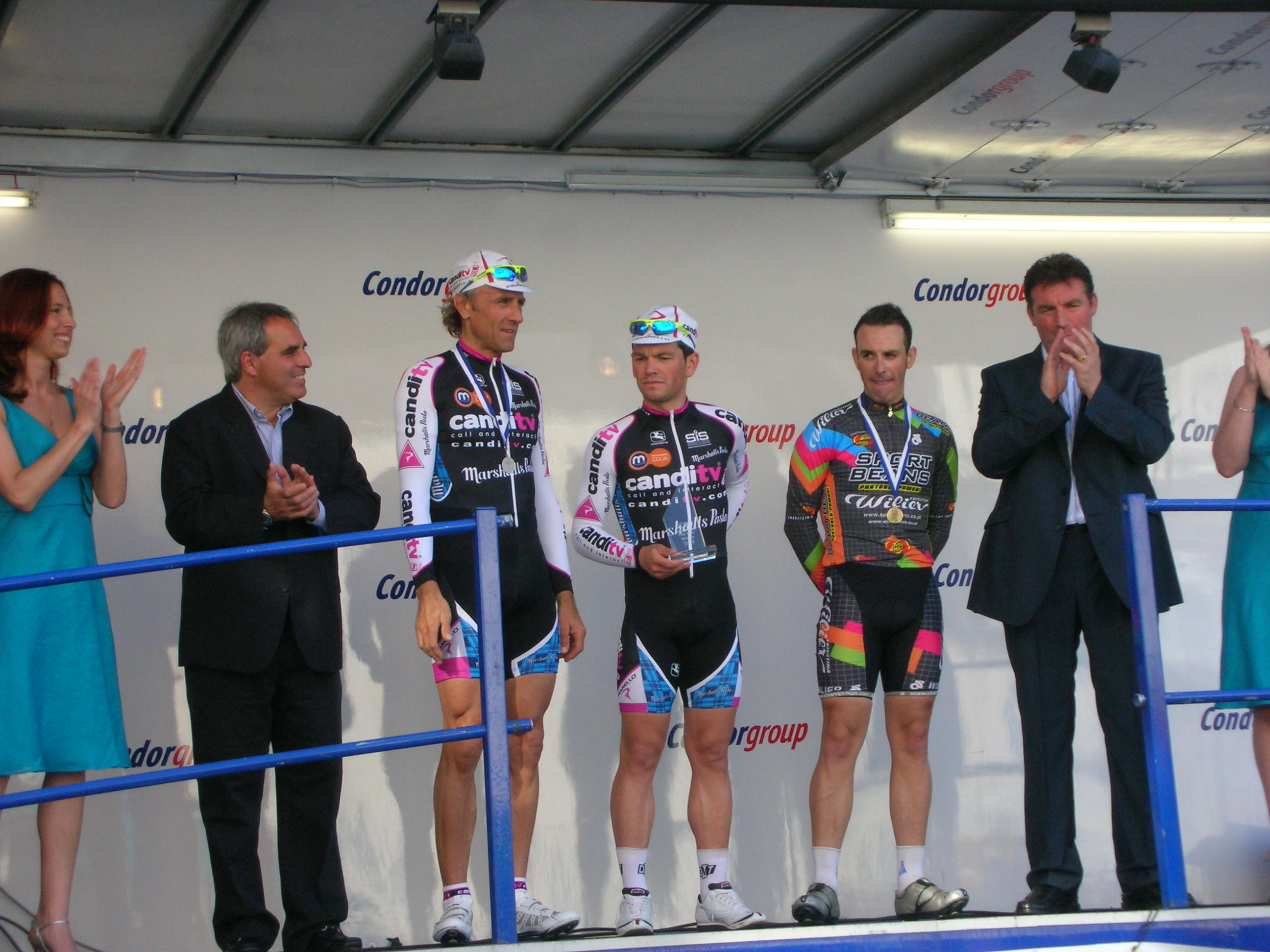 Jersey Town Criterium bicycle races, Saint Helier, Jersey, 24 May 2009